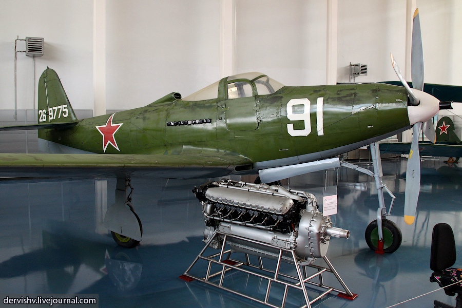 Bell P-63 Kingcobra in Central Air Force Museum (Moscow)